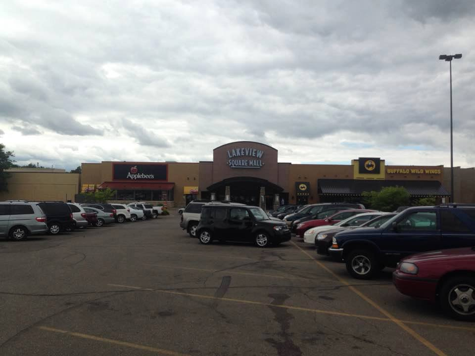 Entryway of Lakeview Square Mall, 2016